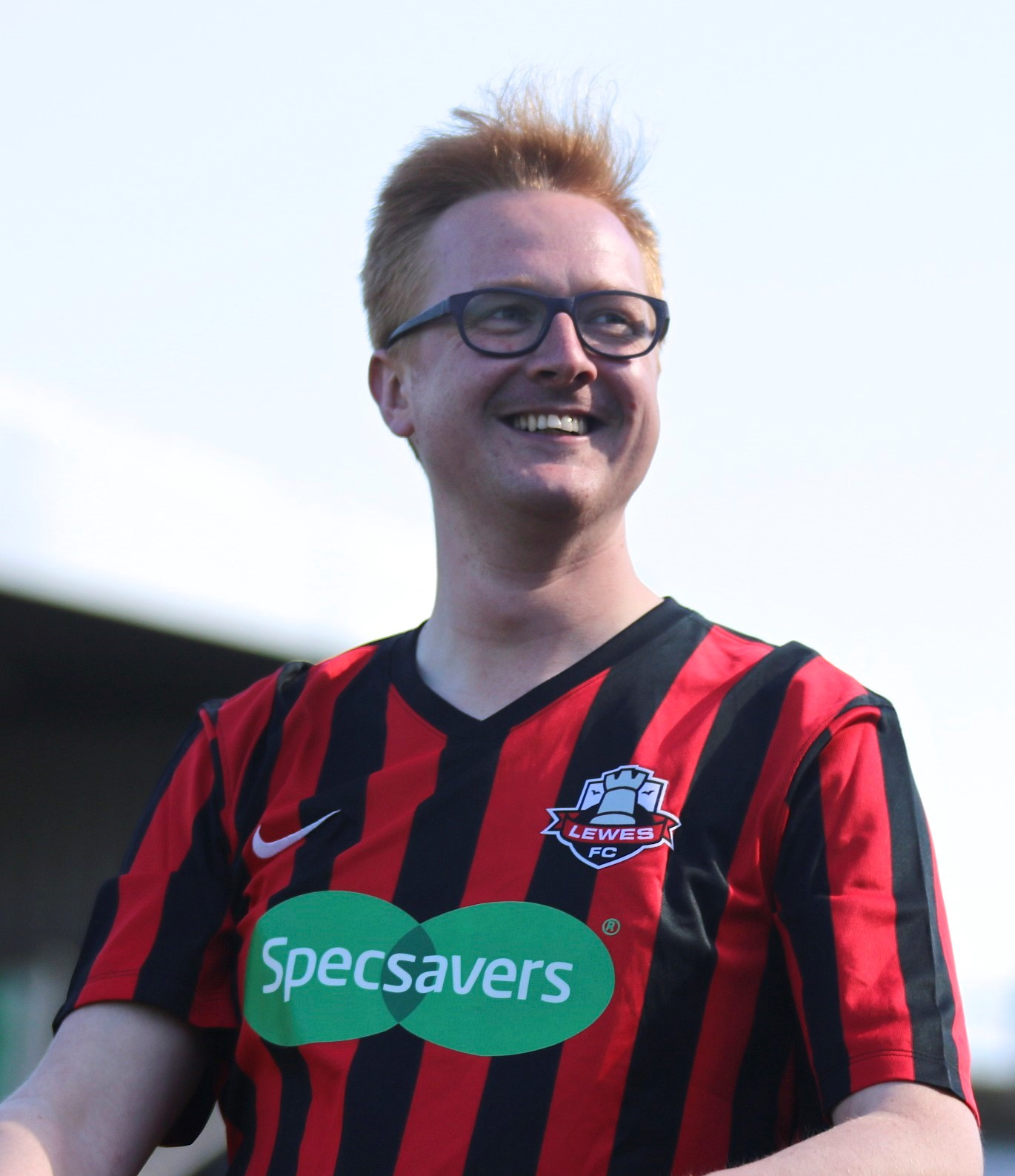 Cropped photograph of Lloyd Russell-Moyle at the Lewes FC Parliamentary Candidate Penalty Shoot Out in April 2015